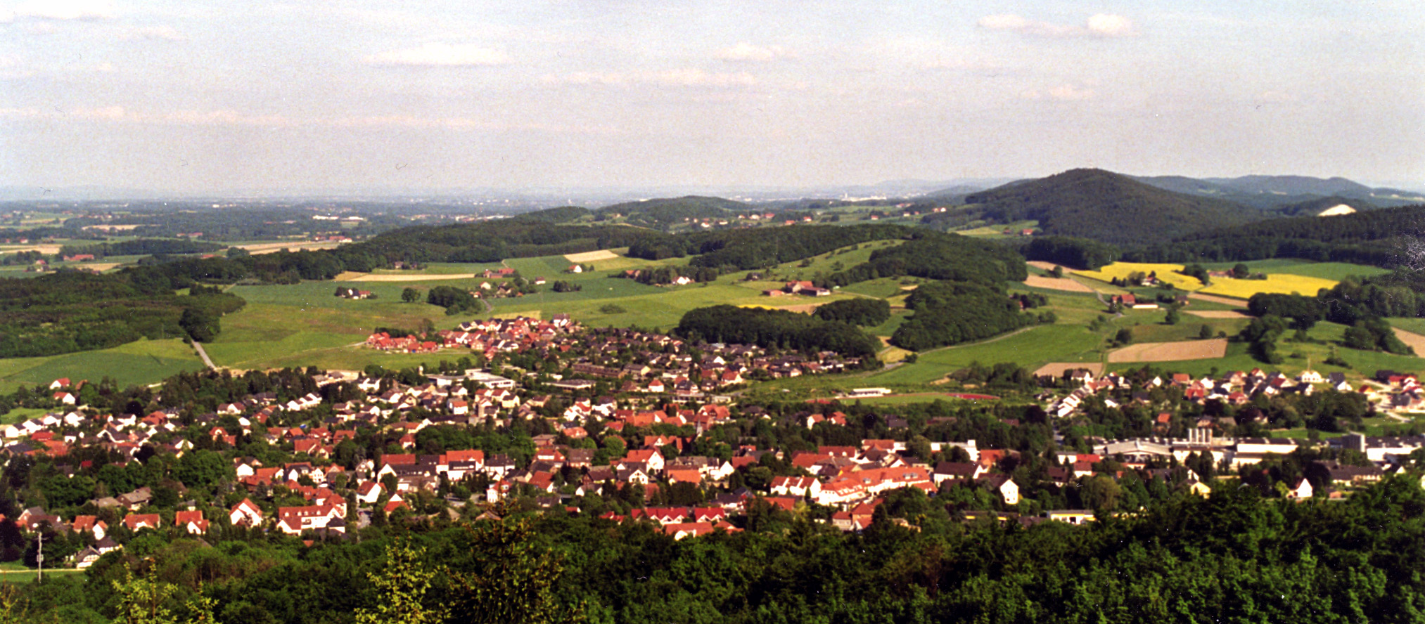 Photo shows the view of the town of Borgholzhausen from the Luisenturm. Taken in the summer of 2002.